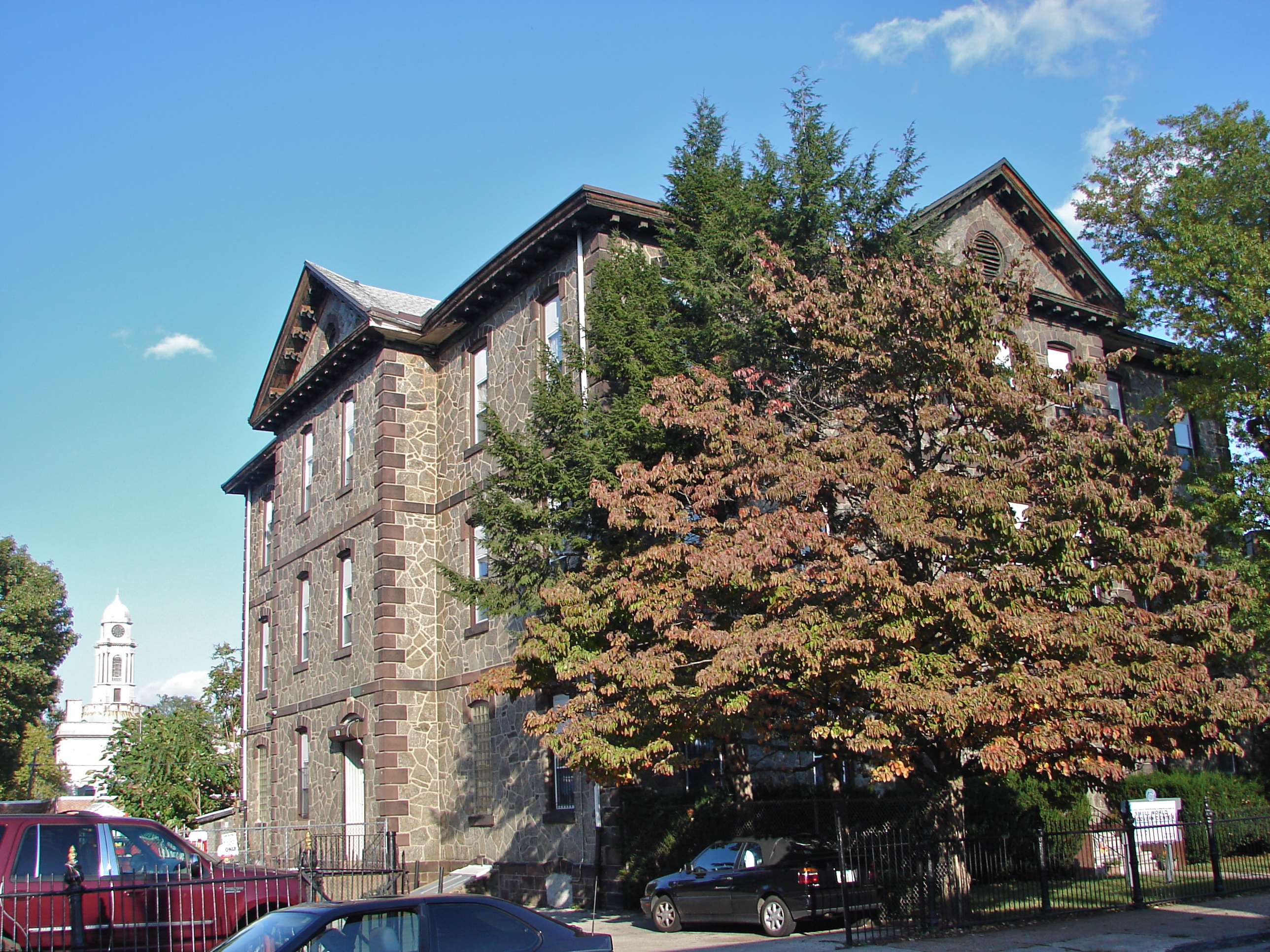 Germantown Grammar School in NW Philadelphia on the NRHP since December 1, 1986. At McCallum and Haines Streets in the Germantown neighborhood. This building has been fixed up a great deal in the last year. Note the Old Town Hall in the background lower left.